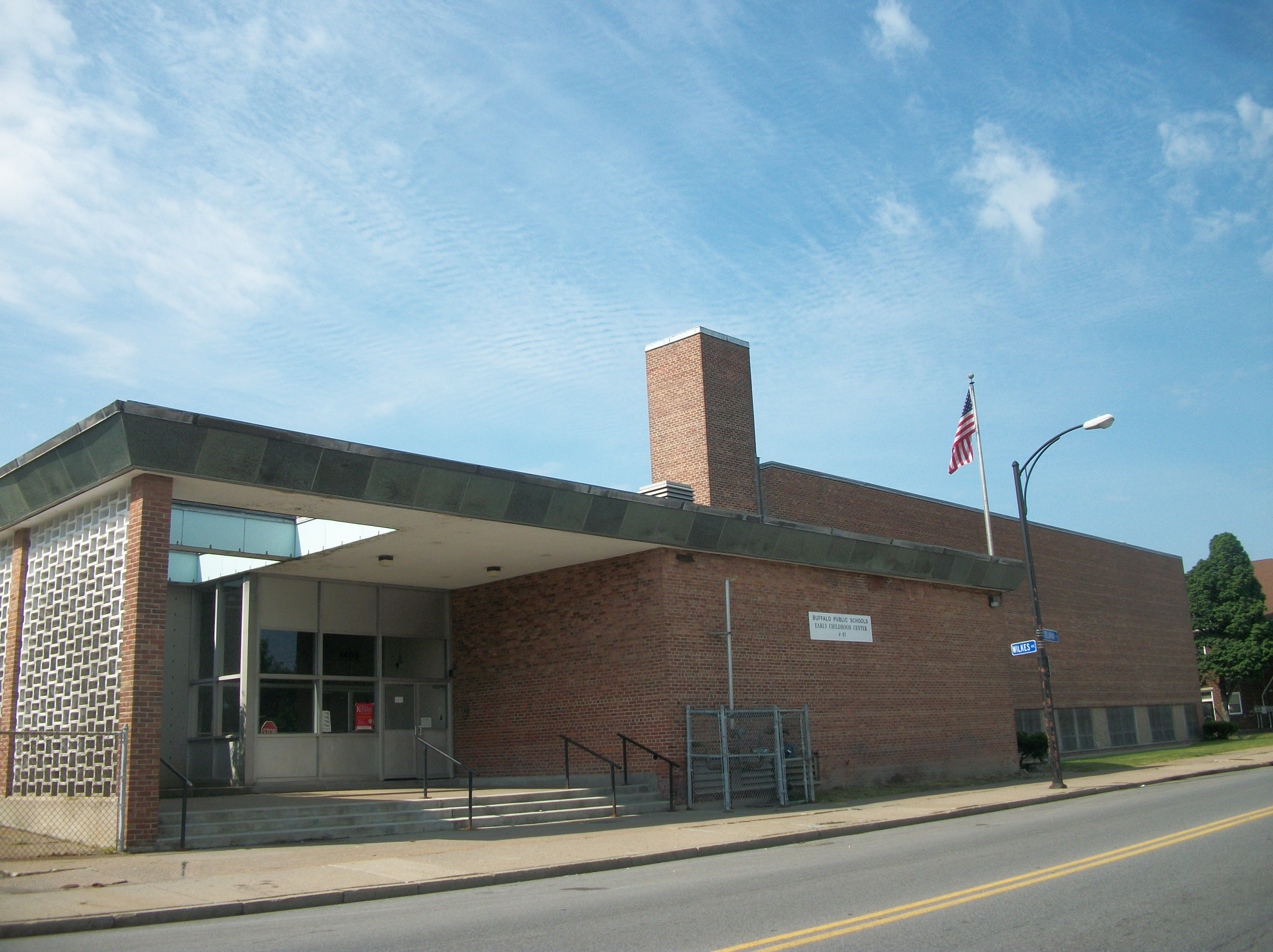 Archbishop Carroll High School in Buffalo, New York, later Kensington Prep, WEB Middle School and Academy School 171